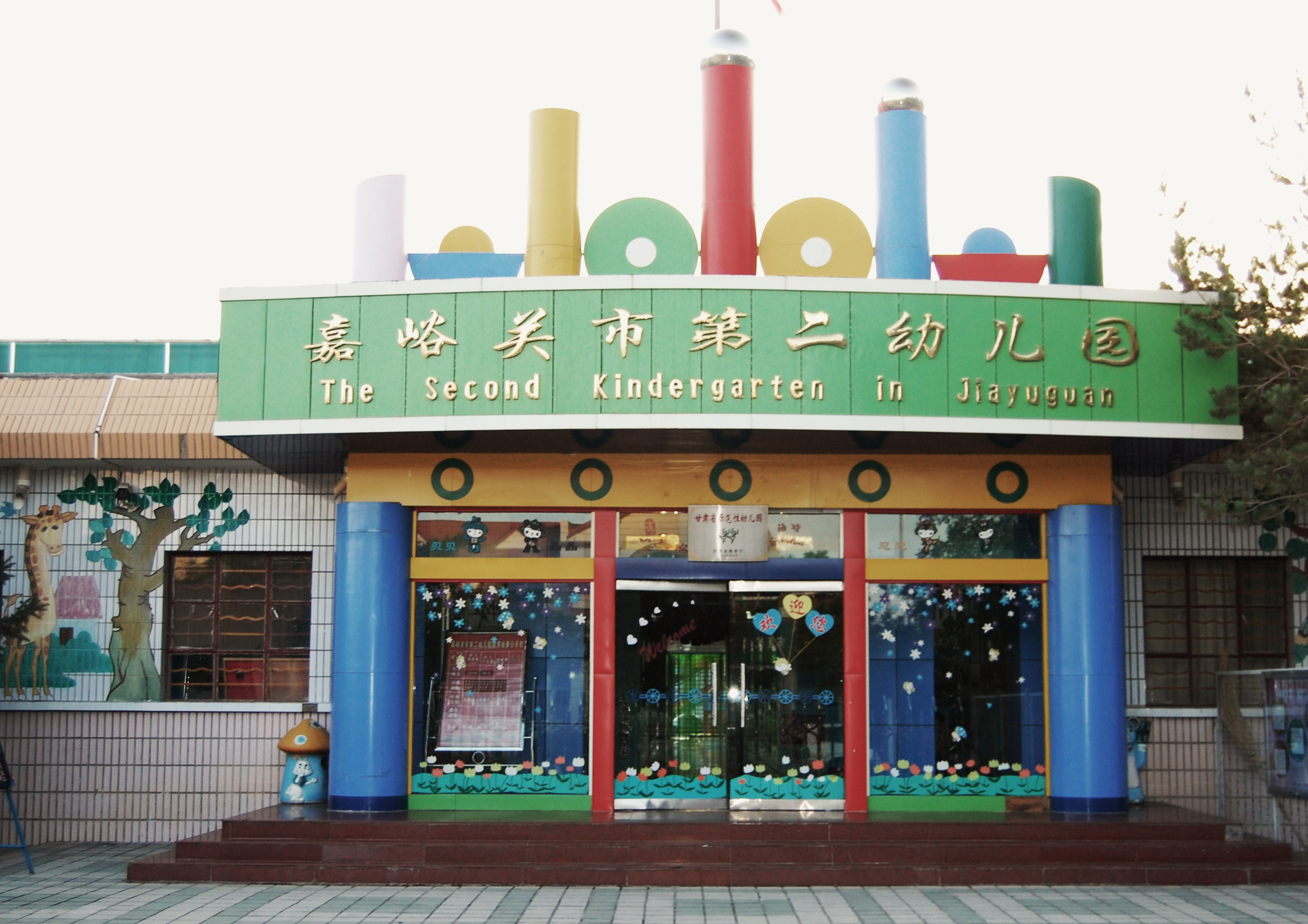 "Kindergarten" in Jiayuguan, Gansu province, China